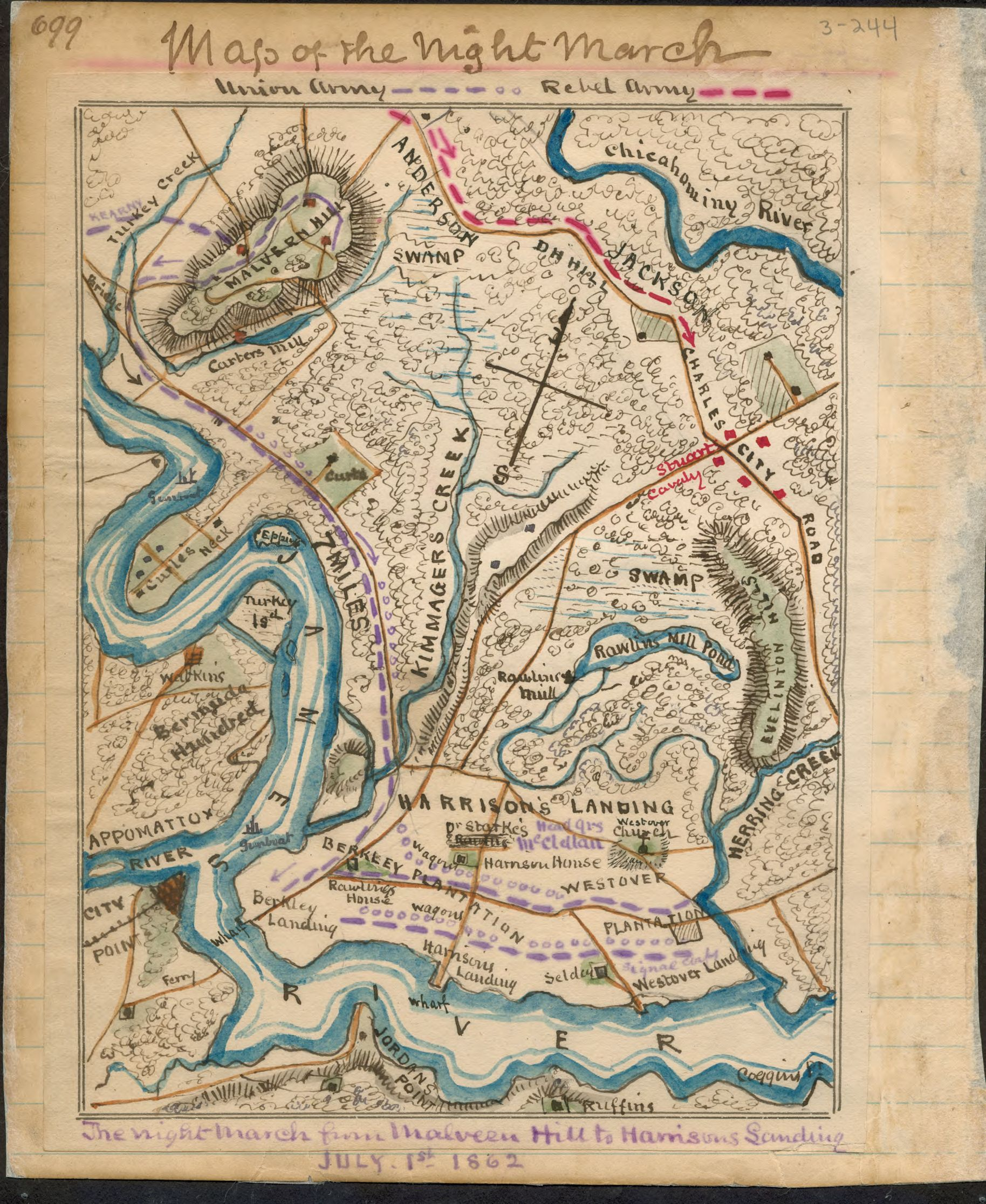 Map of the night's march undertaken by the forces of General George B. McClellan after the Battle of Malvern Hill on July 1, 1862. First published in Robert Sneden's diary, Virginia Historical Society source for verification. This image from the American Memory Collections is available from the United States Library of Congress's National Digital Library Program under the digital ID gvhs01.vhs00096. This tag does not indicate the copyright status of the attached work. A normal copyright tag is still required. See Commons:Licensing for more information.